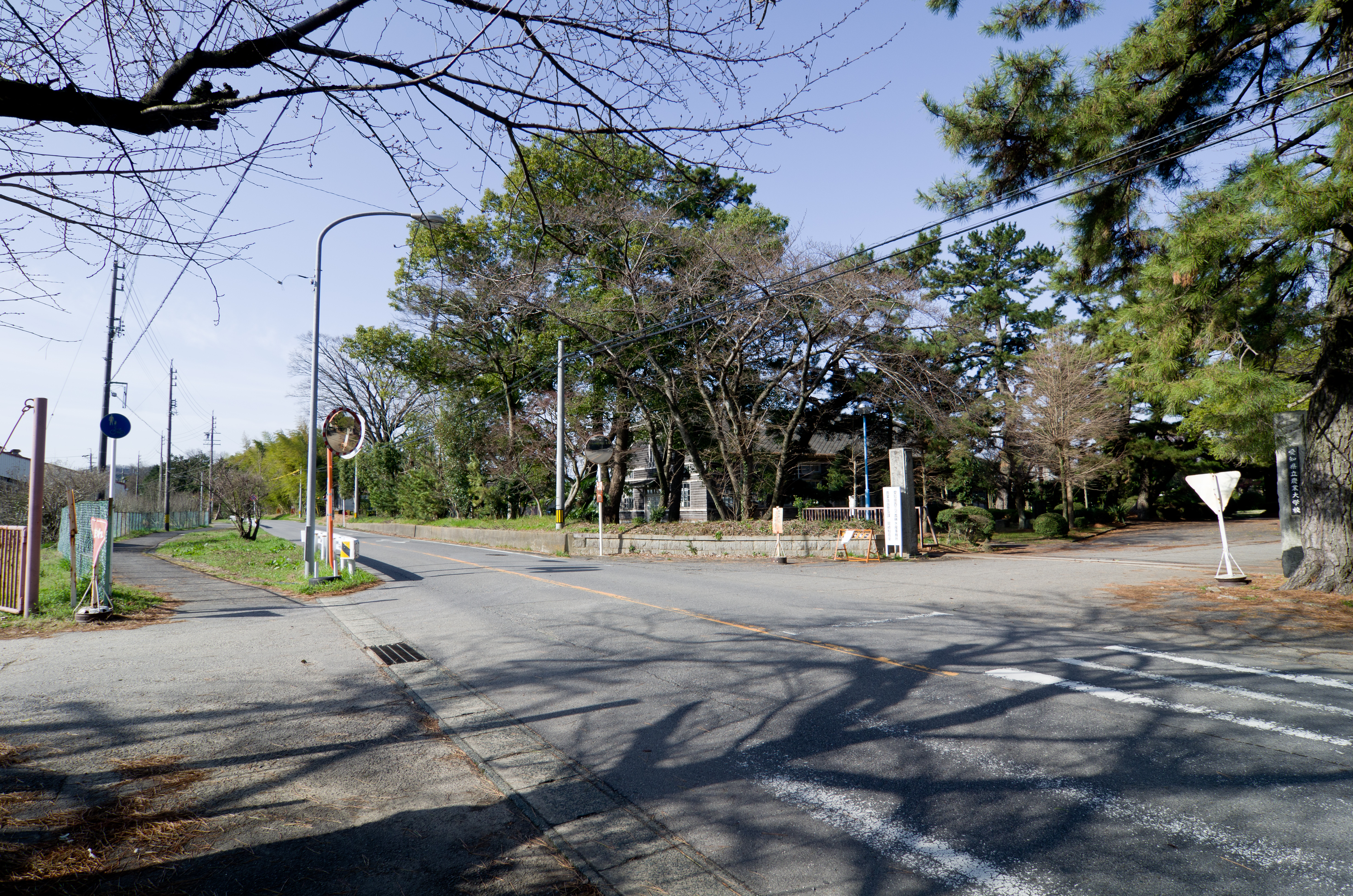 Aichi Prefectural Road r-328 (in Miai-cho, Okazaki, Aichi, Japan). Both sides of this road are sites of Aichi College of Agriculture.